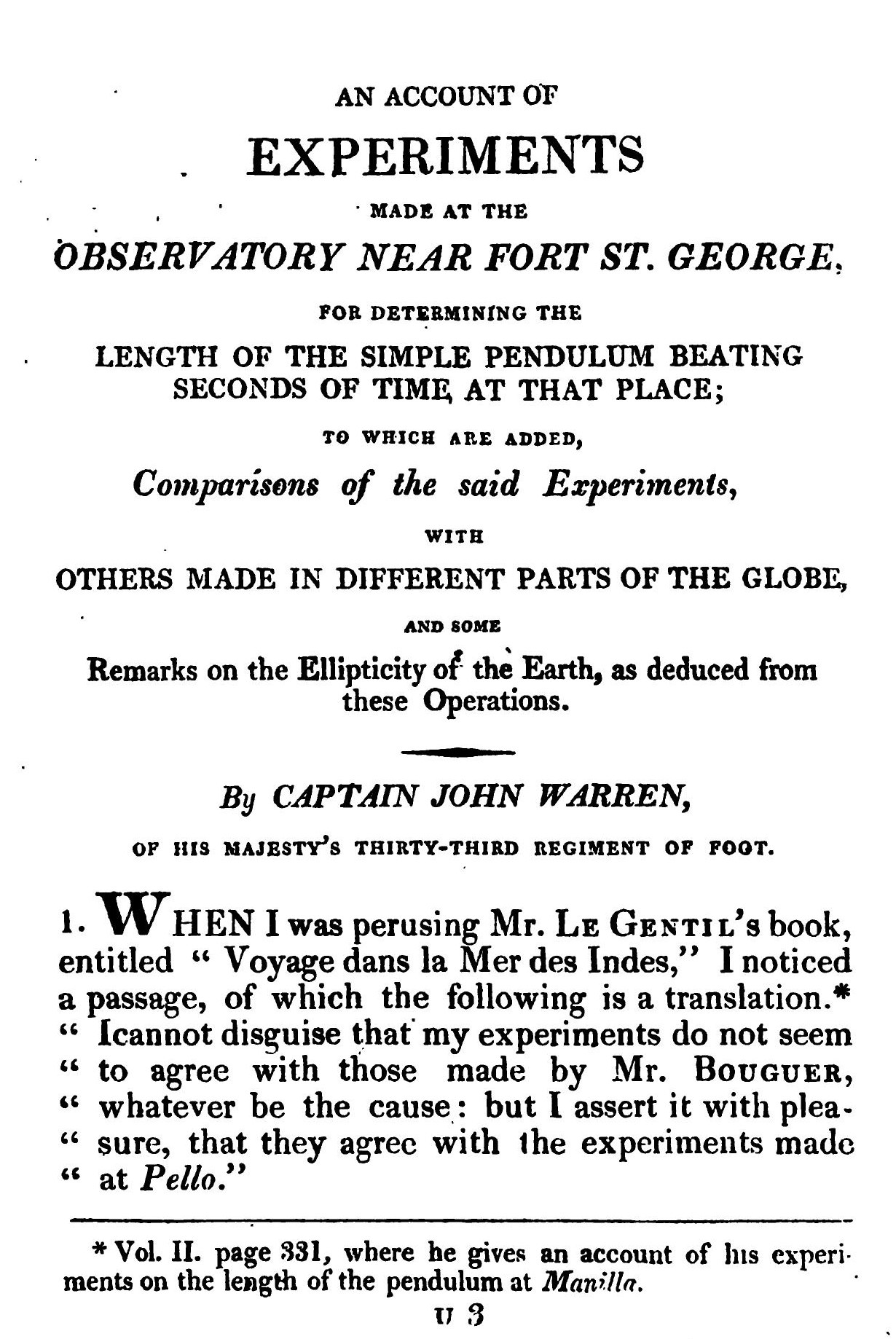 Warren paper title